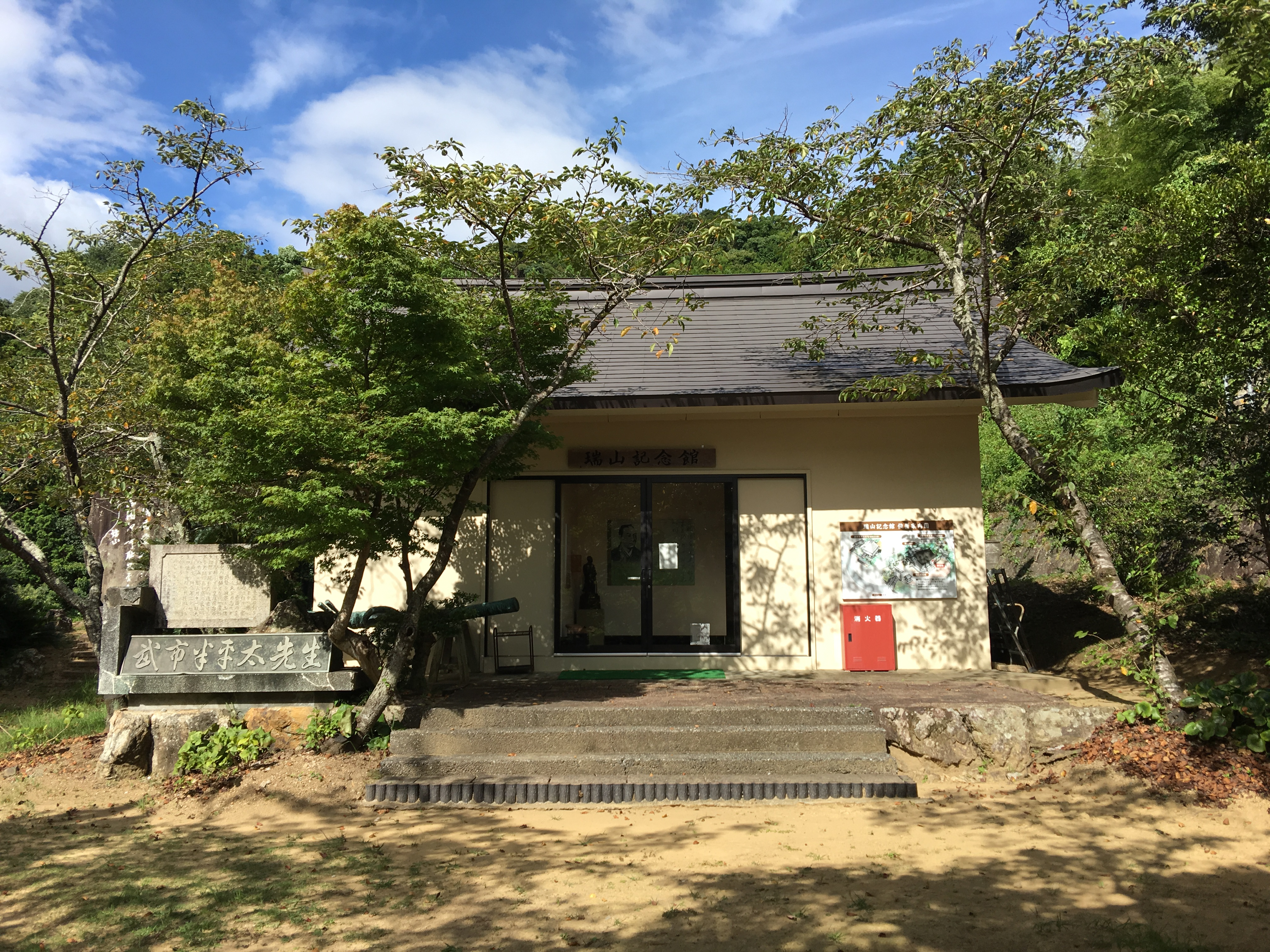 Exterior view of the Zuizan Museum, a biographical museum devoted to the leader of the Tosa Loyalist Party Takechi Zuizan, also known as Takechi Hanpeita.